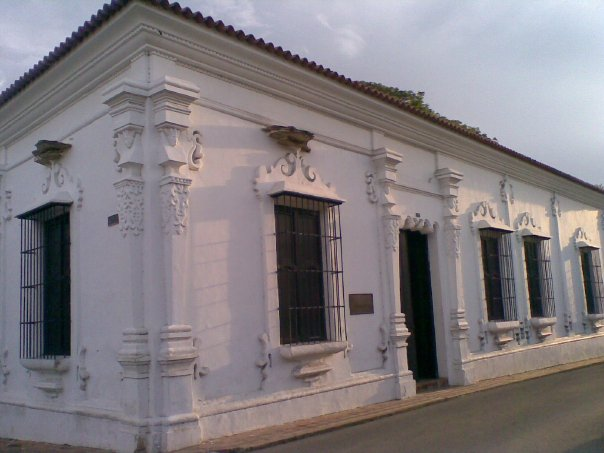 Spanish colonial era "Casa Blanquera" in Venezuela.